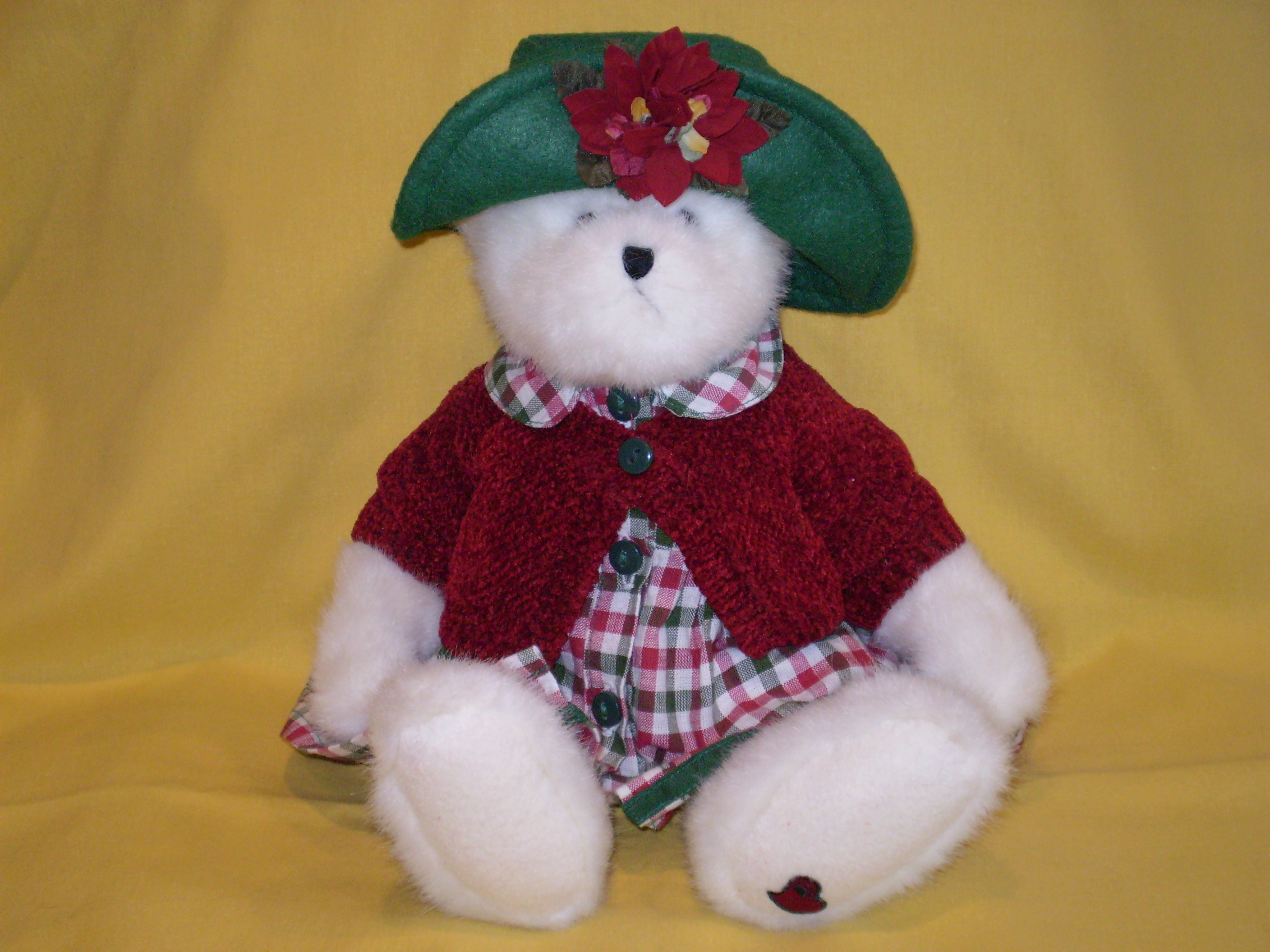 Boyds Bears